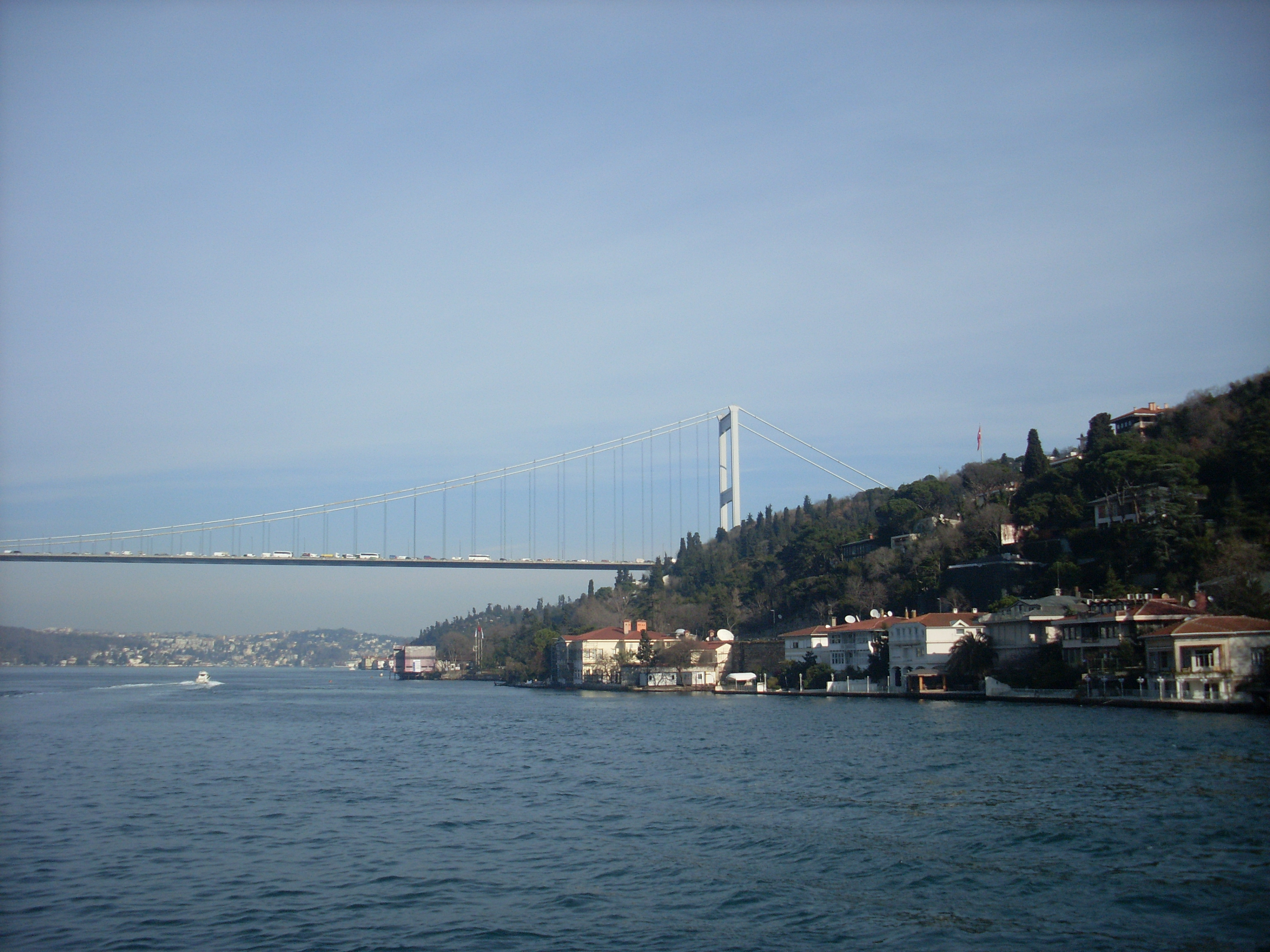 İstanbul - Anadoluhisarı, Beykoz r2 - feb 2013